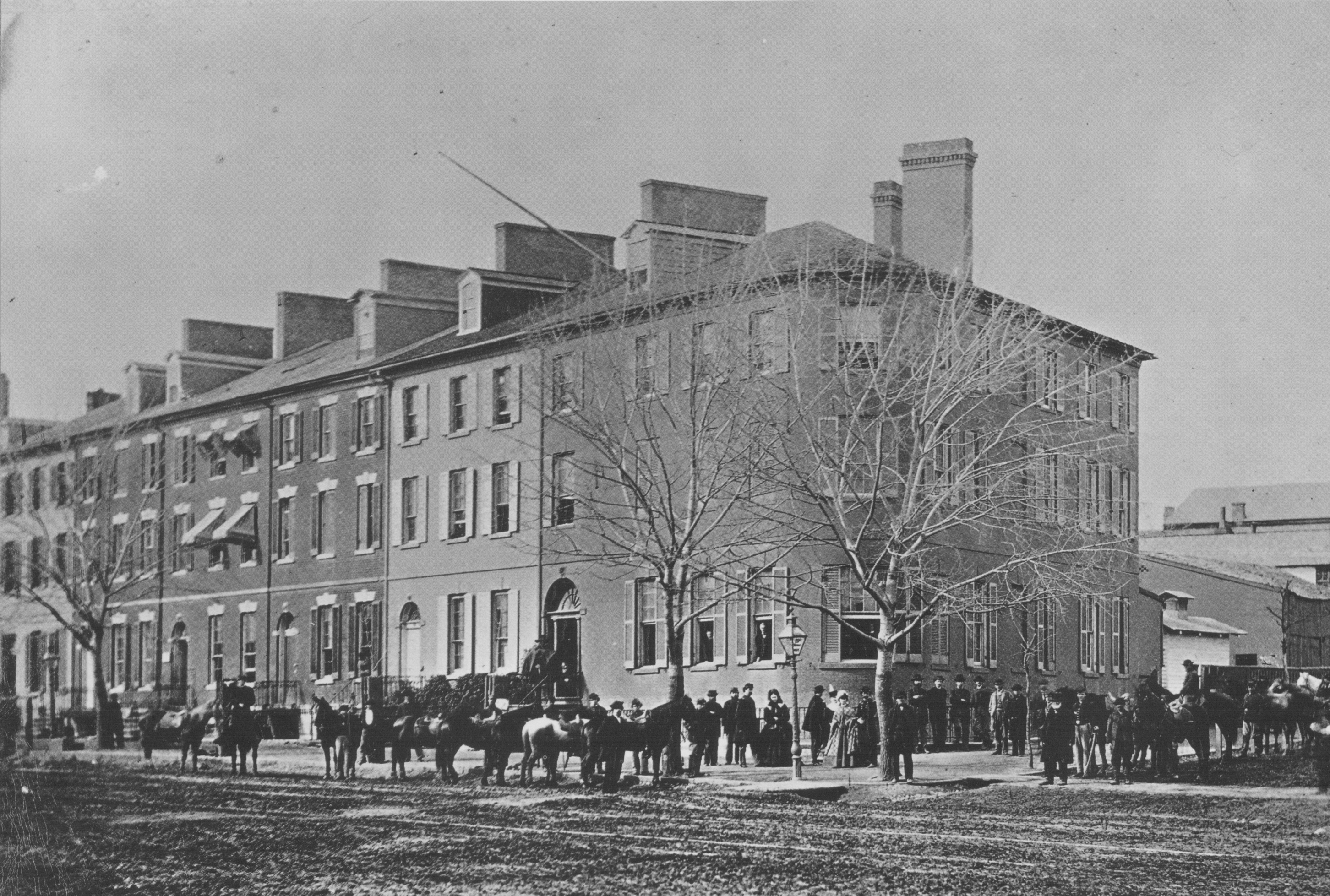 Looking northwest at the Seven Buildings in Washington, D.C., in the United States in 1865. These seven, three-story Federalist-style townhouses were constructed by Walter Stewart in 1796. They have housed presidents, vice presidents, foreign embassies, the U.S. State Department, and even the U.S. Constitution. Most of them were demolished in 1959 to make way for a modern office building. Two facades survive as part of the facade of a 1986 office building.